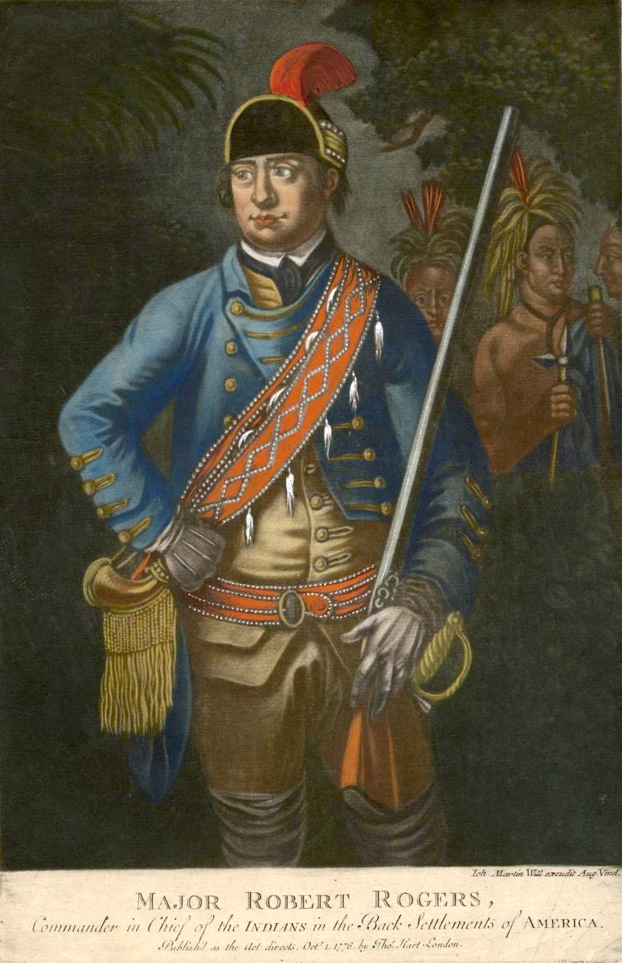 A color mezzotint of a representation of American ranger Robert Rogers. (There are no known likenesses of Rogers made from life.)